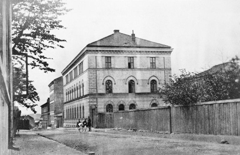 Rosenkrantz' gate 7 in Christiania (=Oslo); Nissen's high school; built 1847, architect Johan Henrik Nebelong; photo July 9, 1865.